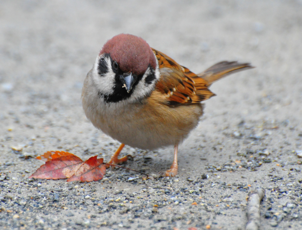 Eurasian Tree Sparrow in Shinjuku Central Park, Shinjuku, Nishi-Shinjuku, 2-chome, Tokyo, Japan.